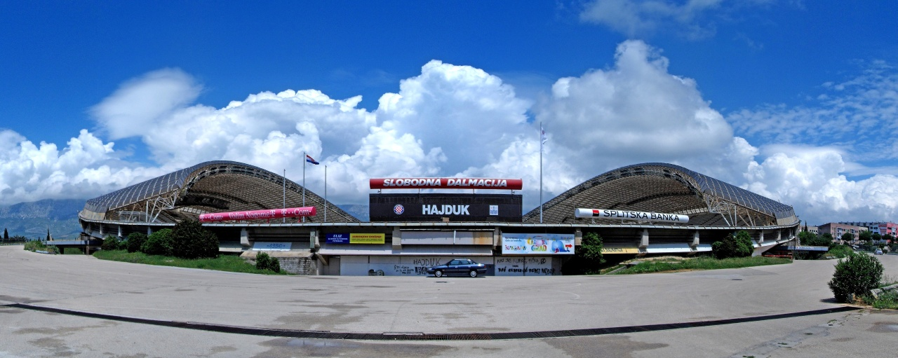 Poljud_panorama_3